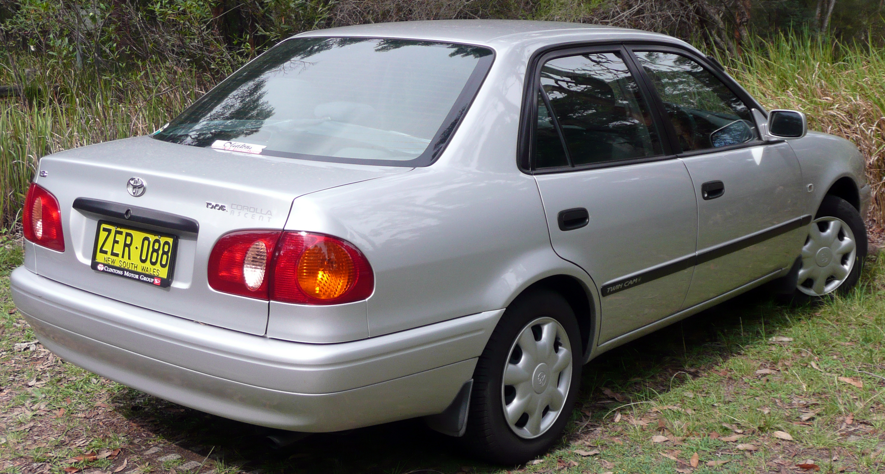 2000–2001 Toyota Corolla (AE112R) Ascent sedan. Photographed in Audley, New South Wales, Australia.